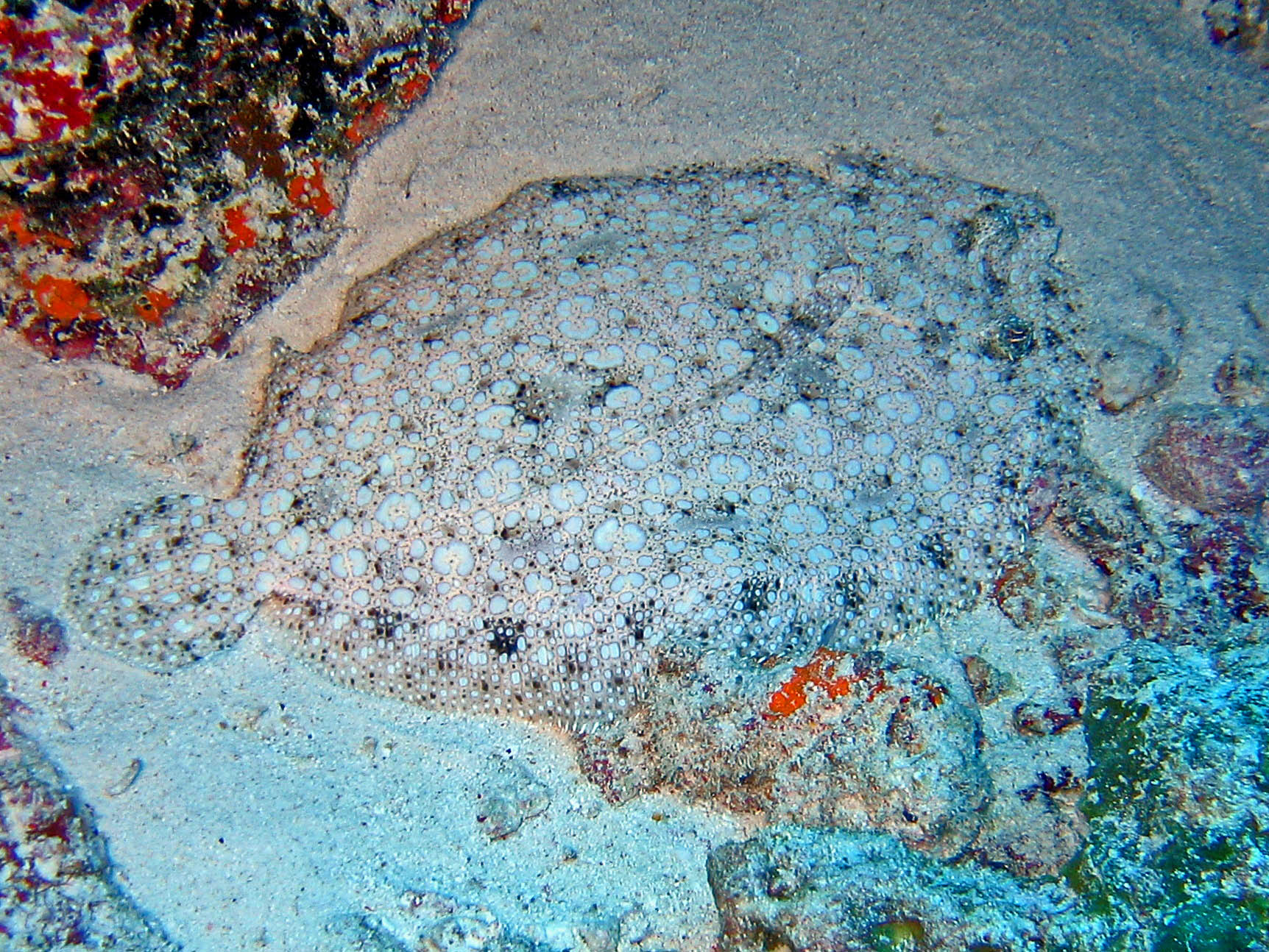 Bothus pantherinus in Polynesia